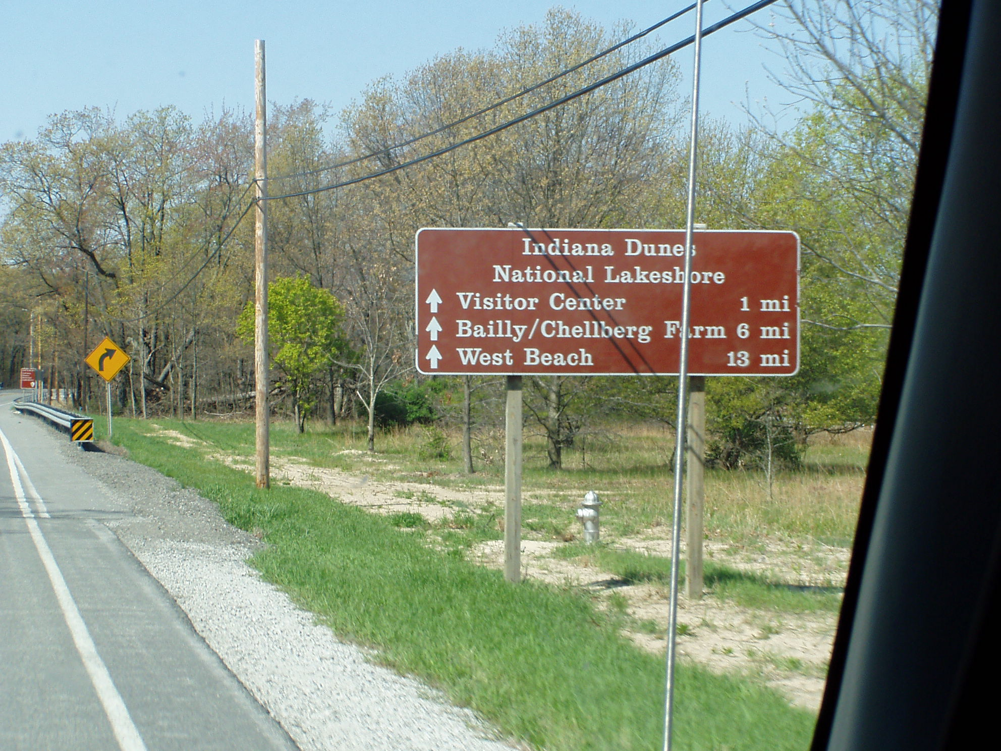 U.S. 12 (Dunes Highway), west bound in Tremont area, Indiana